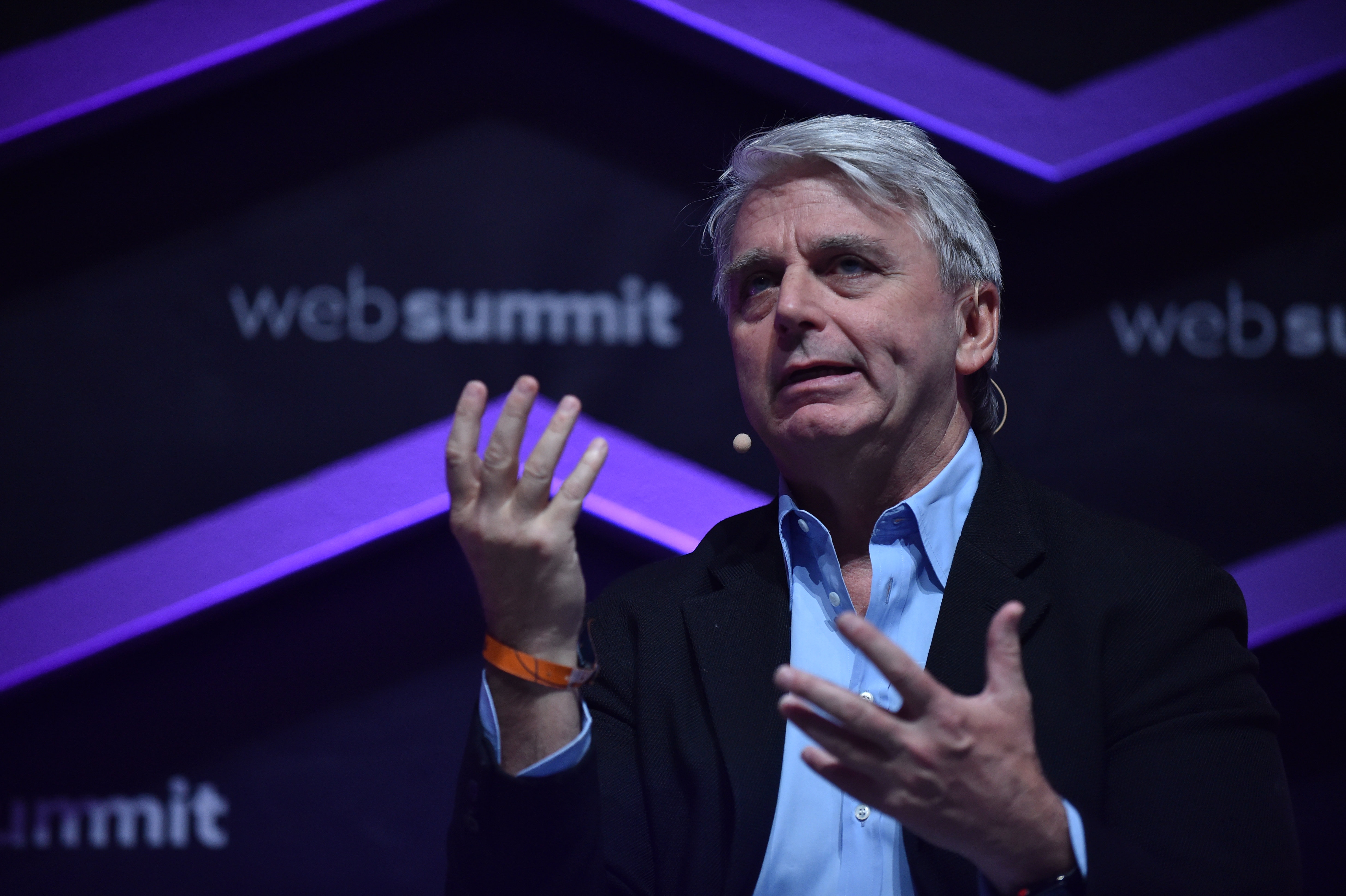 8 November 2017; John Riccitiello, CEO, Unity Technologies, on PlayerOne Stage during day two of Web Summit 2017 at Altice Arena in Lisbon. Photo by David Fitzgerald/Web Summit via Sportsfile